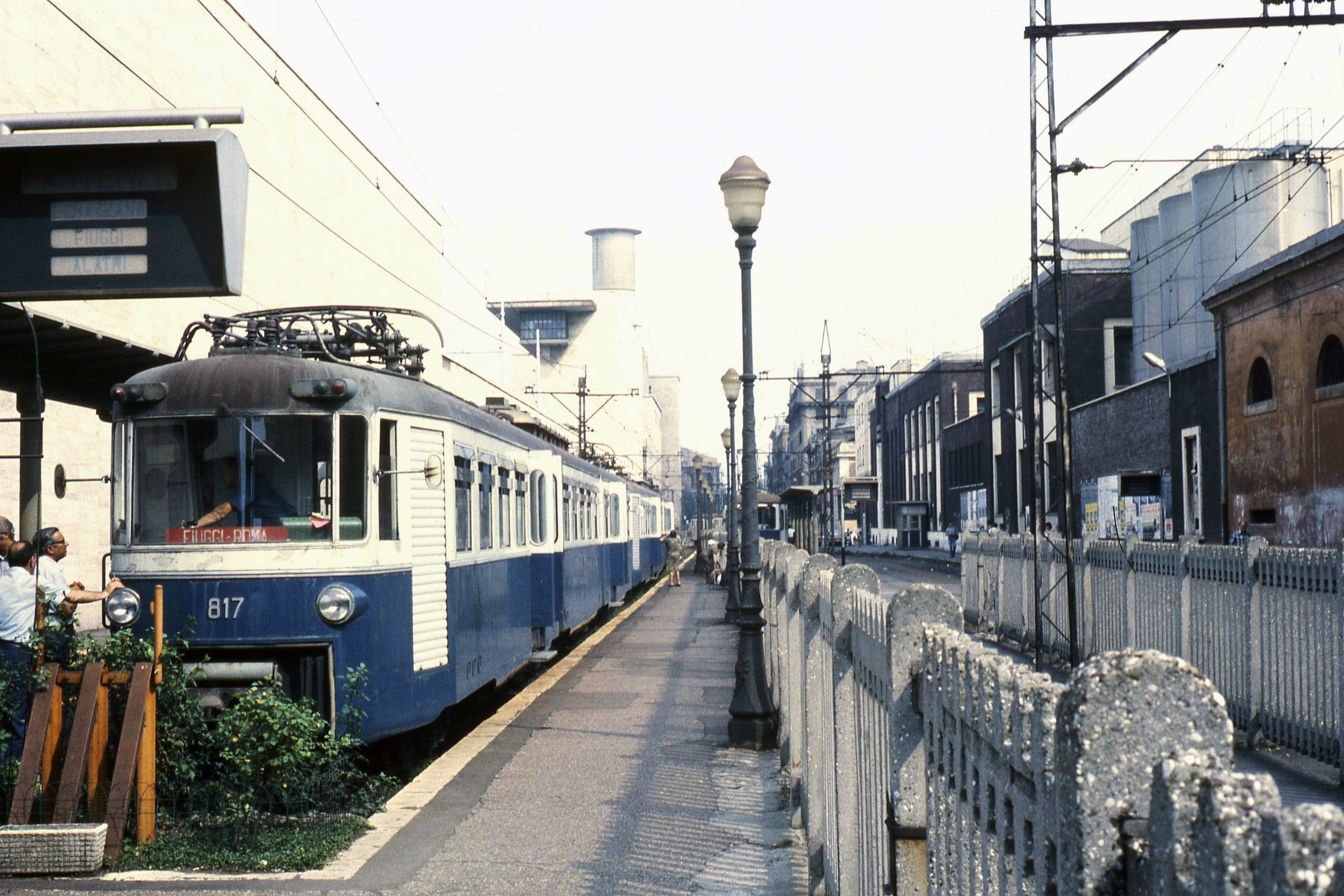 Rome-Fiuggi-Alatri-Frosinone railway terminal in 1979. On the destination board for the regional trains the main destinations are Fiuggi and Alatri. At that time there where only very few trains to Alatri. The frequent suburban trains leave on a platform in the background.